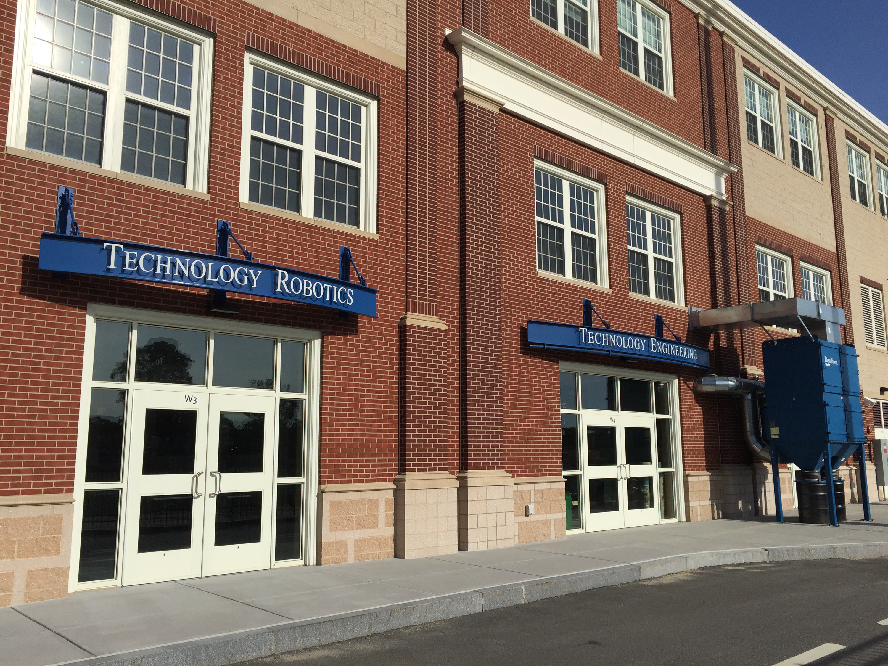 Rear of buiding, entrances to the robot lab. Somerset Berkley Regional High School 2017